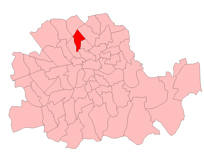 A map of Islington West constituency within the London County Council area, as it existed from 1918 to 1949.